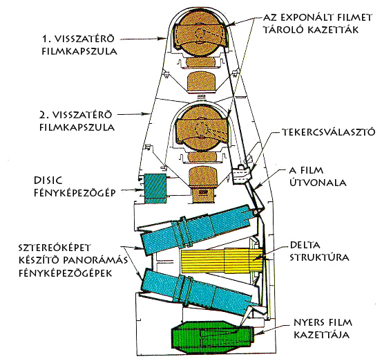 Transwiki approved by: User:Dmcdevit This image was copied from en. The original description was: "J-1" type Corona spy satellite camera system used on KH-4A missions from 1963 to 1969.